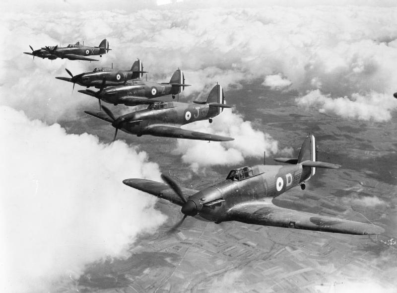 Royal Air Force in France, 1939-1940. Six Hurricane Mark Is of No. 73 Squadron RAF, based at Rouvres, France, flying in loose echelon formation.